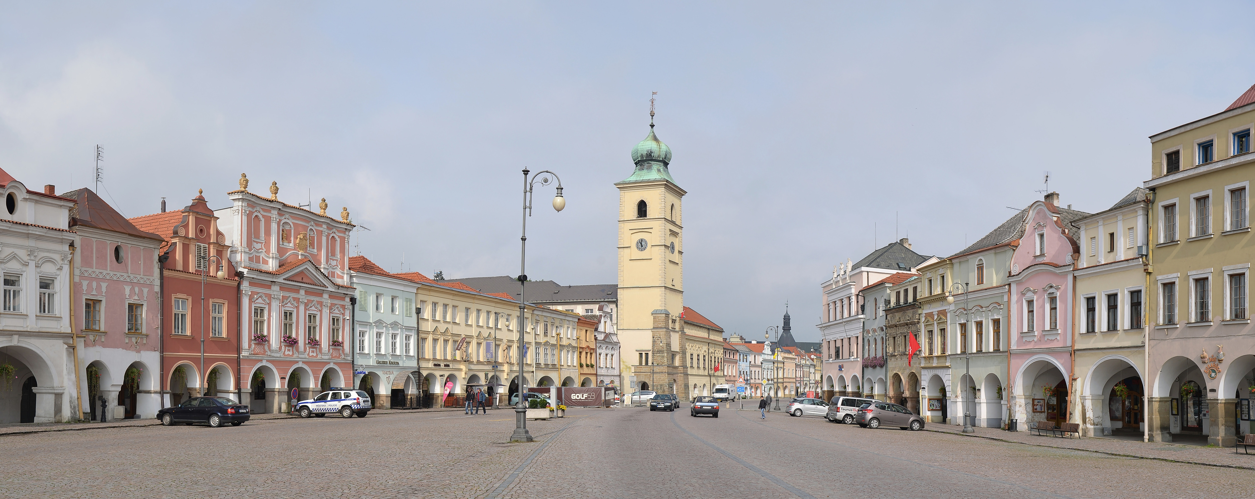 Litomyšl (Leitomischl), Czech Republic - Smetanovo náměstí